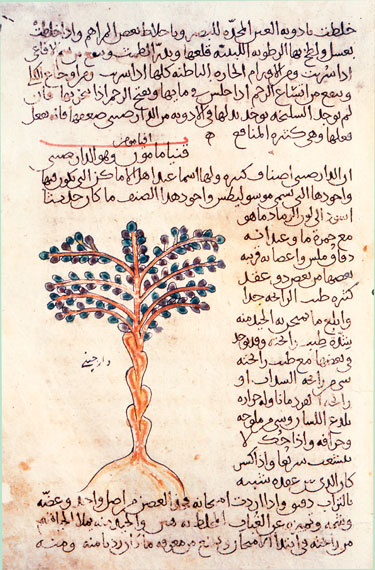 An illustration and description of a Cinnamomum tree in a 10th-century Arabic manuscript of Dioscorides’ De Materia Medica. Dioscorides wrote that cinnamon was useful in combating a number of illnesses, from coughs to kidney diseases. STATE UNIVERSITY LIBRARY, LEIDEN / WERNER FORMAN / ART RESOURCE